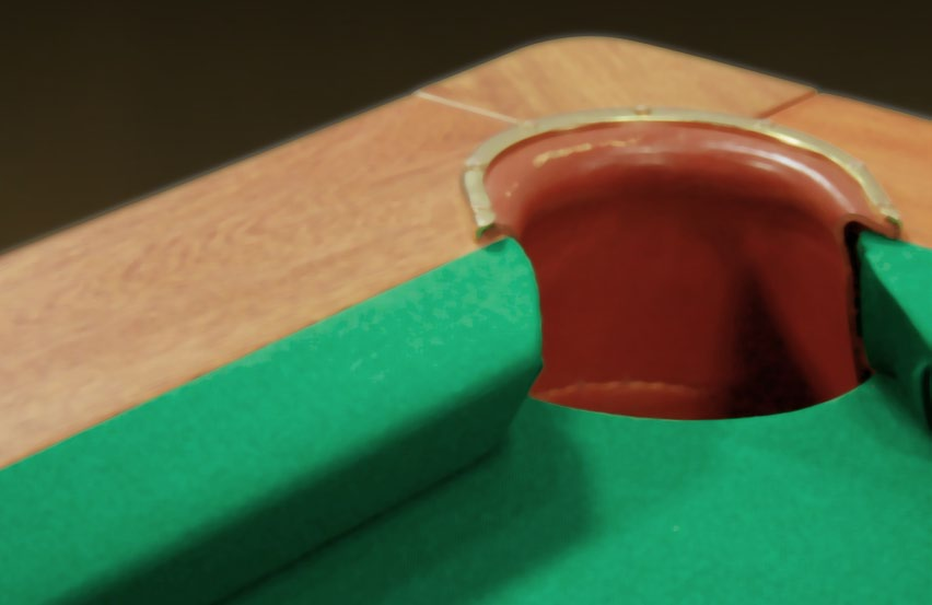 billiard